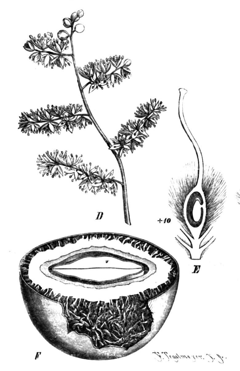 Illustration from book